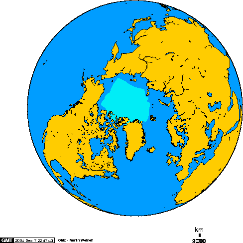 Extent of the Arctic ice-pack in September 1978-2002 This map was initially created using this tool, then adapted, by hand, to recreate the boundaries from the images on this site. See also left|thumb|North pole February ice-pack 1970-2002